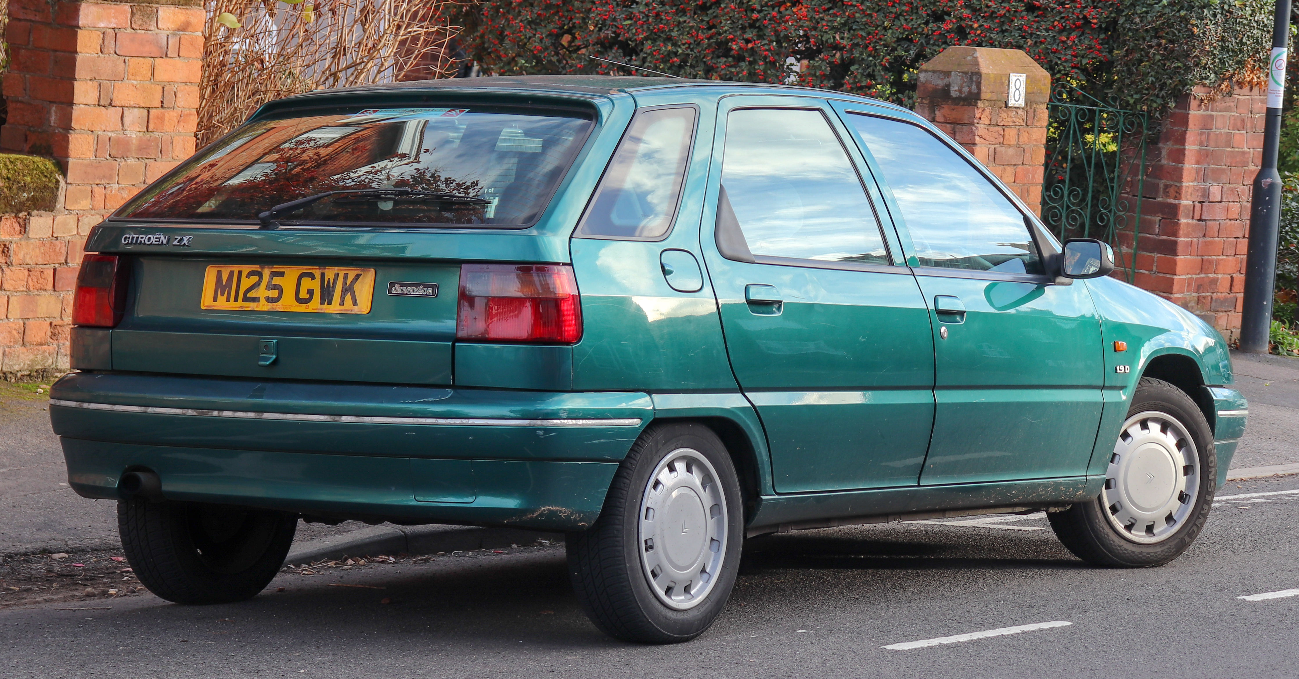 1994 Citroen ZX Dimension 1.9 Rear Taken in Leamington Spa